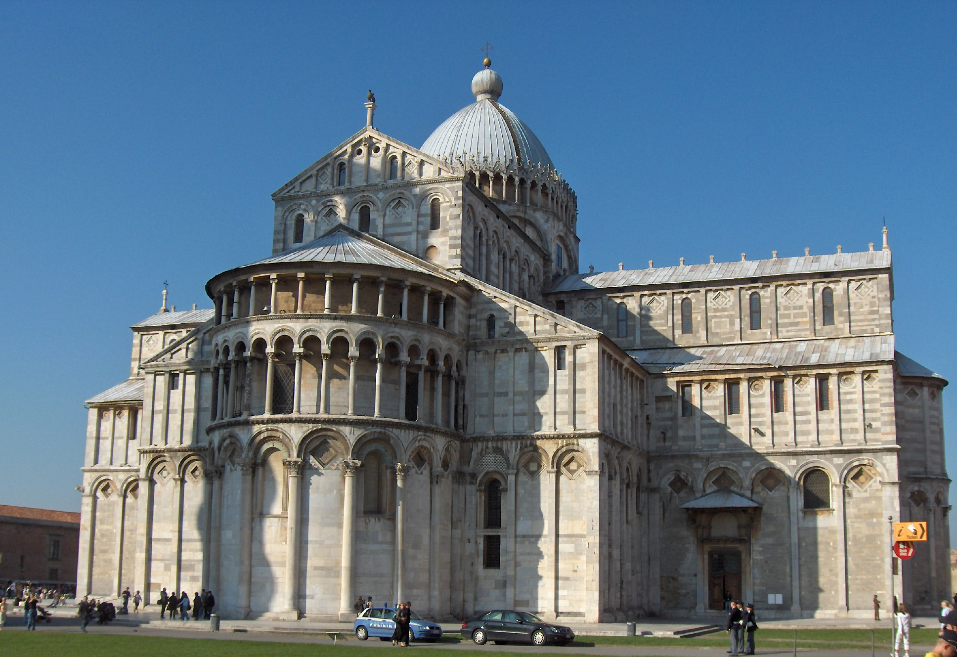 Apse of the cathedral; Pisa, Italy